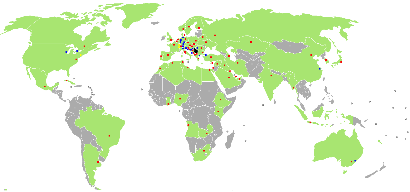 Map of diplomatic missions of Serbia